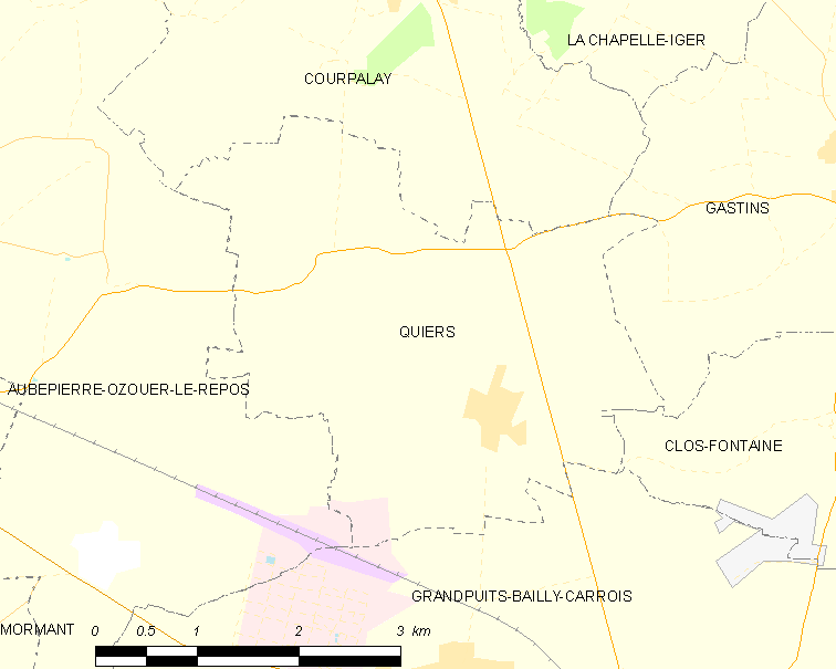 Map of French municipality Quiers